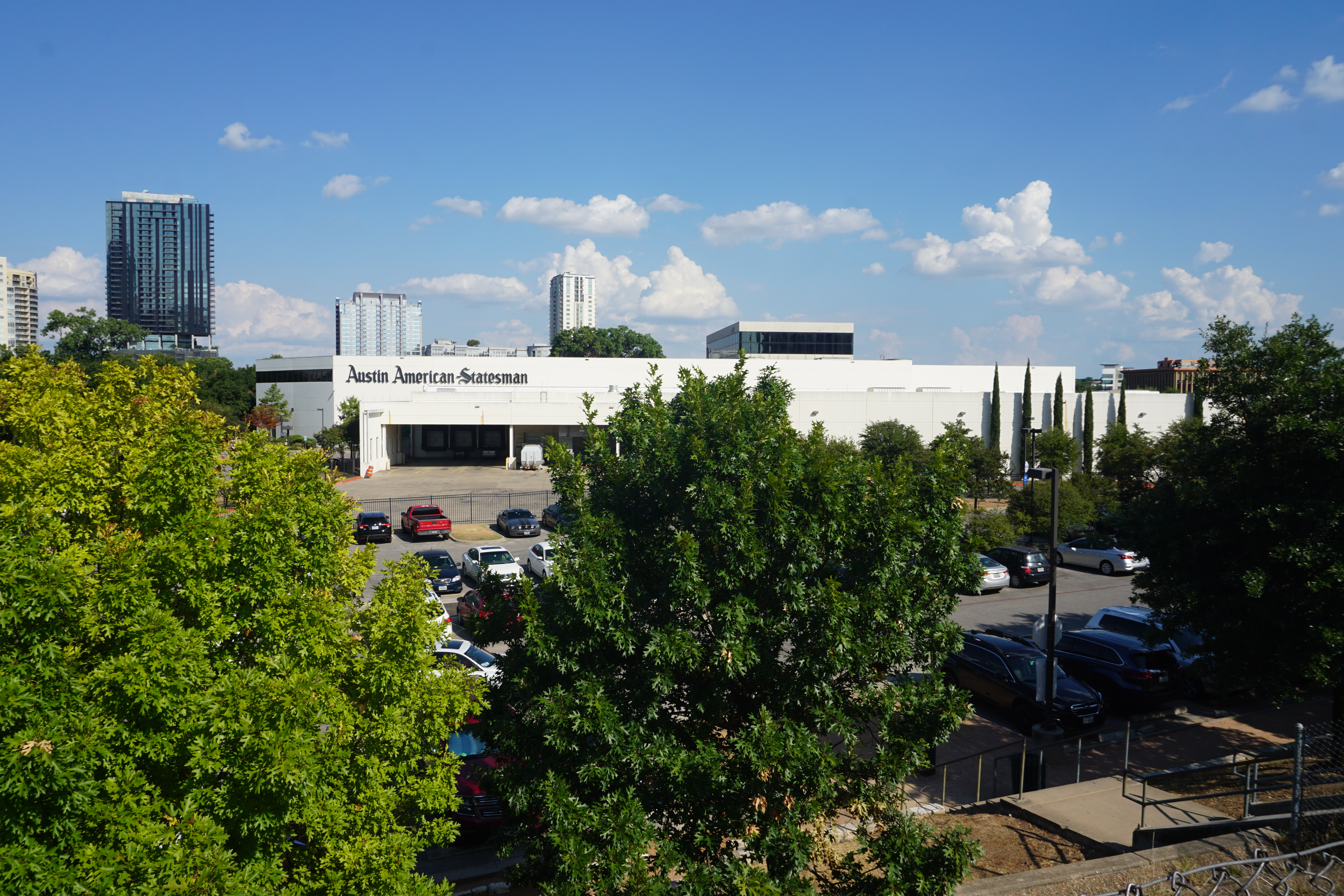 The Austin American-Statesman building in Austin, Texas (United States).